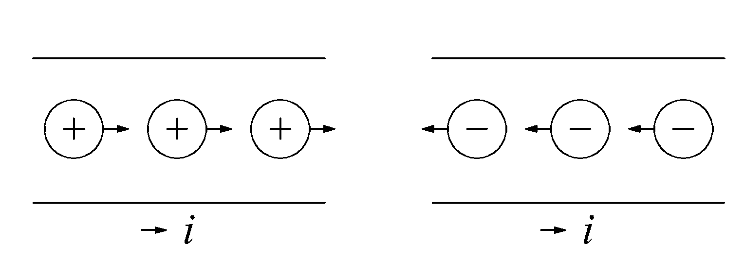 Currentequal